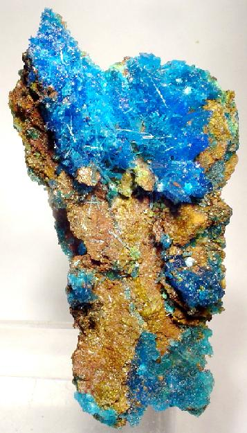 Chalcanthite Locality: Washington Camp-Duquesne District, Patagonia District, Patagonia Mts, Santa Cruz County, Arizona, USA (Locality at ) A STRIKING old-time specimen of needles of lustrous, royal-blue chalcanthite to 1.0 cm aesthetically set on a nicely contrasting crust of limonite from Washington Camp, Patagonia District, Arizona. Ex Richard Hauck Collection. 5.5 x 2.9 x 1.5 cm